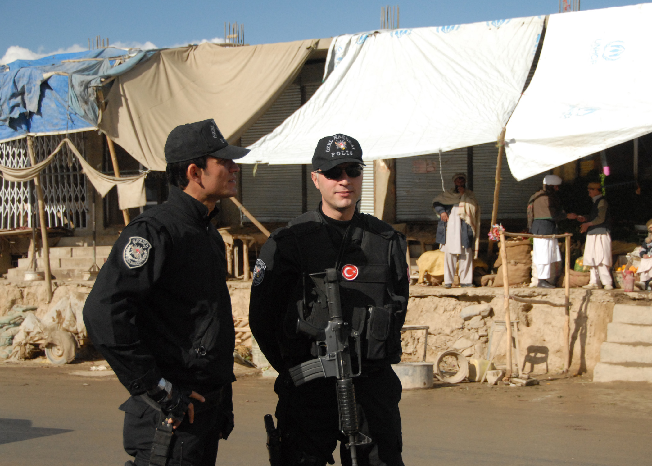 MAIDEN SHAHR, Afghanistan--Members of the Turkish Police that work out of the Turkish Provincial Reconstruction Team (PRT) compound maintain security at the Wardak central market on Dec. 9, 2008. The Turkish PRT is the only one of 26 throughout Afghanistan that is run solely by civilians. ISAF photo by U.S. Navy Petty Officer 2nd Class Aramis X. Ramirez (RELEASED)